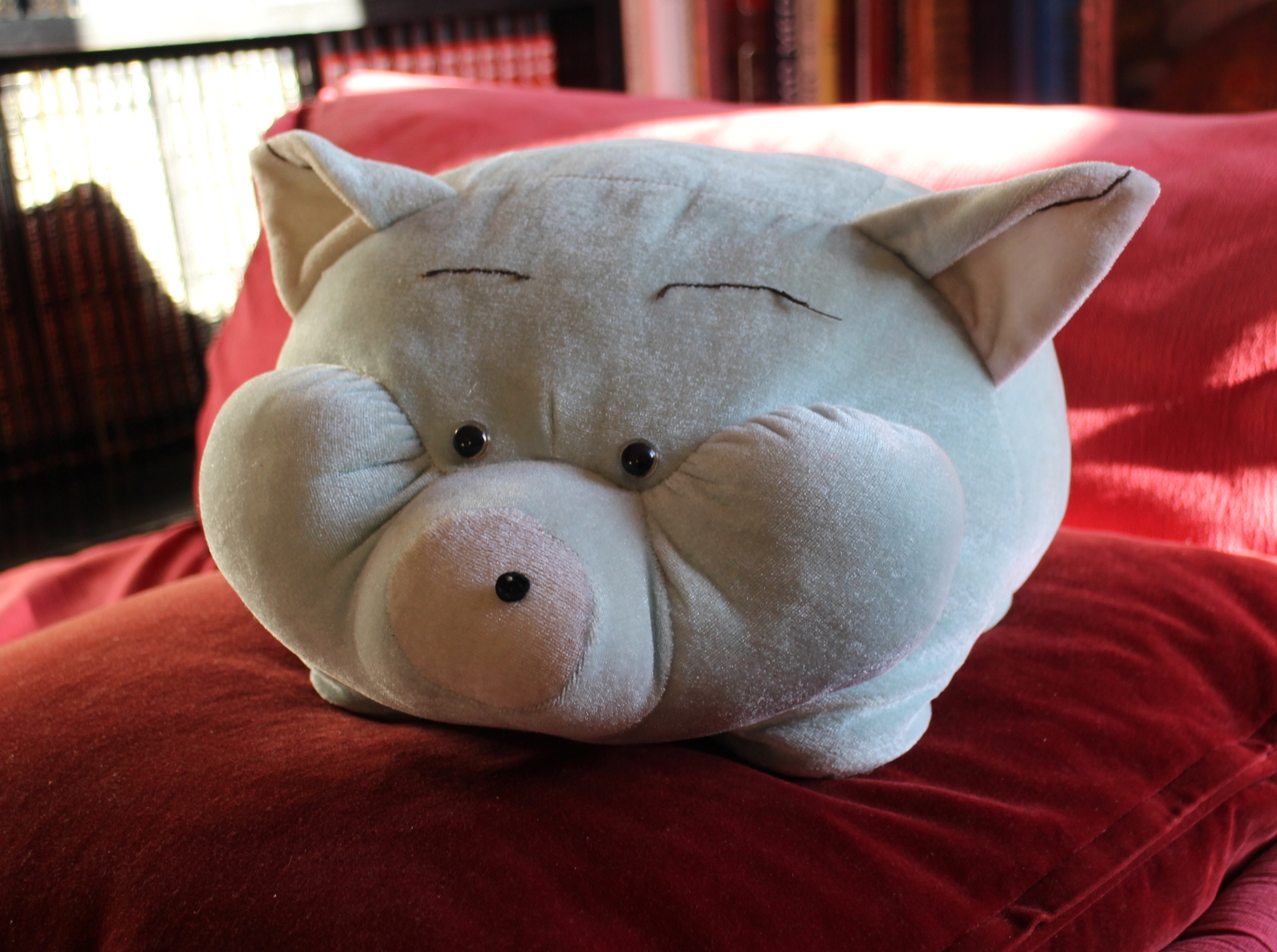 Cute baby's puppet (home-made) : Plush pork-pig